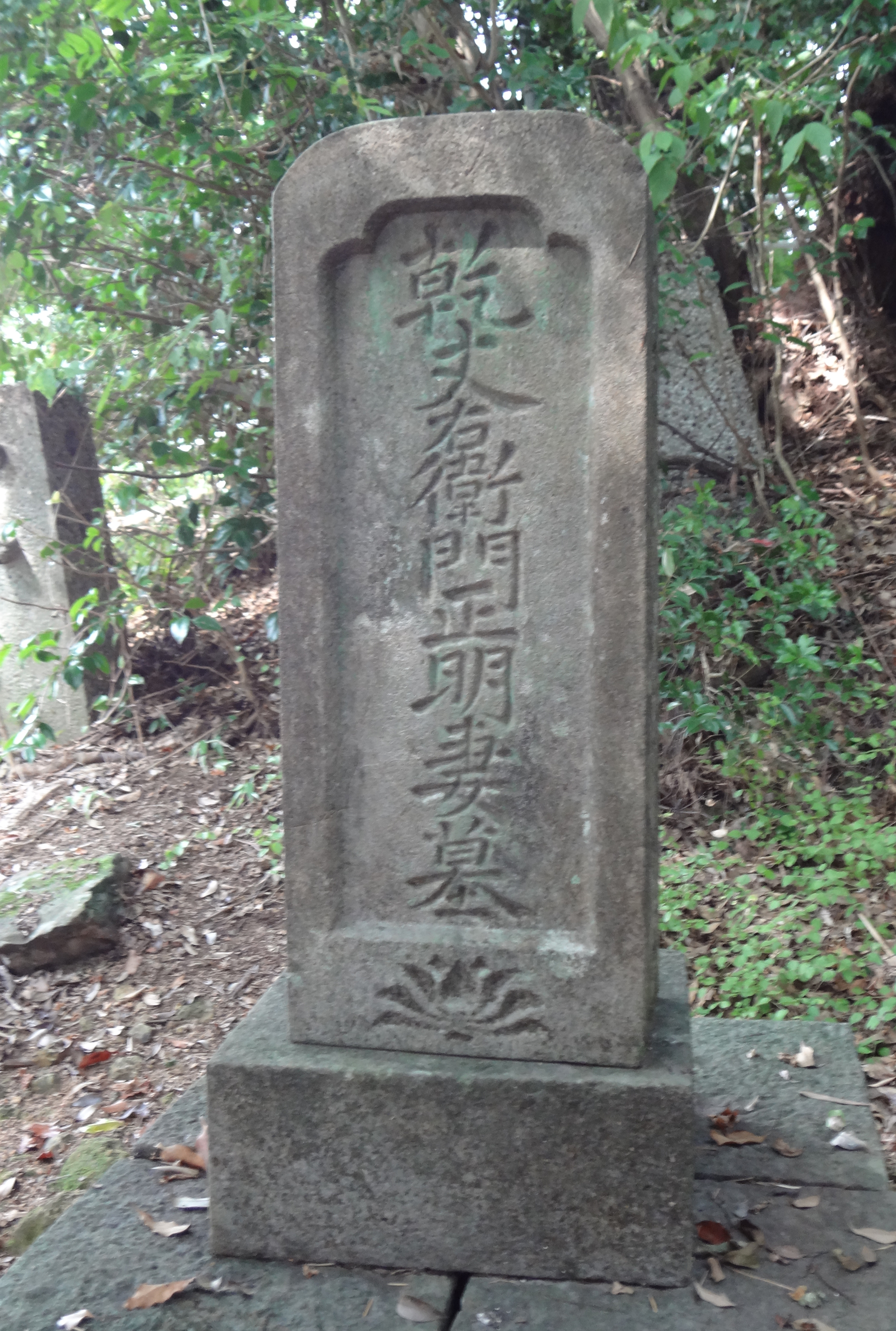 The tomb of INUI(ITAGAKI) MASA-AKIRA's wife (Daughter of HAYASHI Touzaemon KATSUCHIKA, -1825). Great-Grandmother of ITAGAKI TAISUKE.